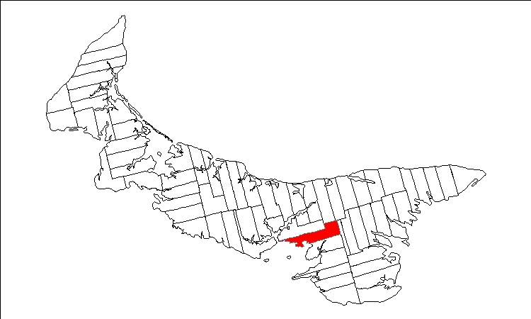 Public domain map of Prince Edward Island created by User:Plasma east with data courtesy of Geogratis, modified to show townships. Released under GFDL (self).